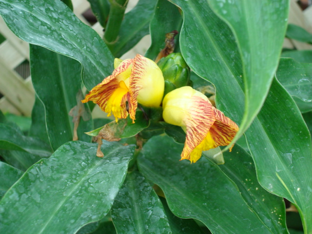 Picture of Costus pictus